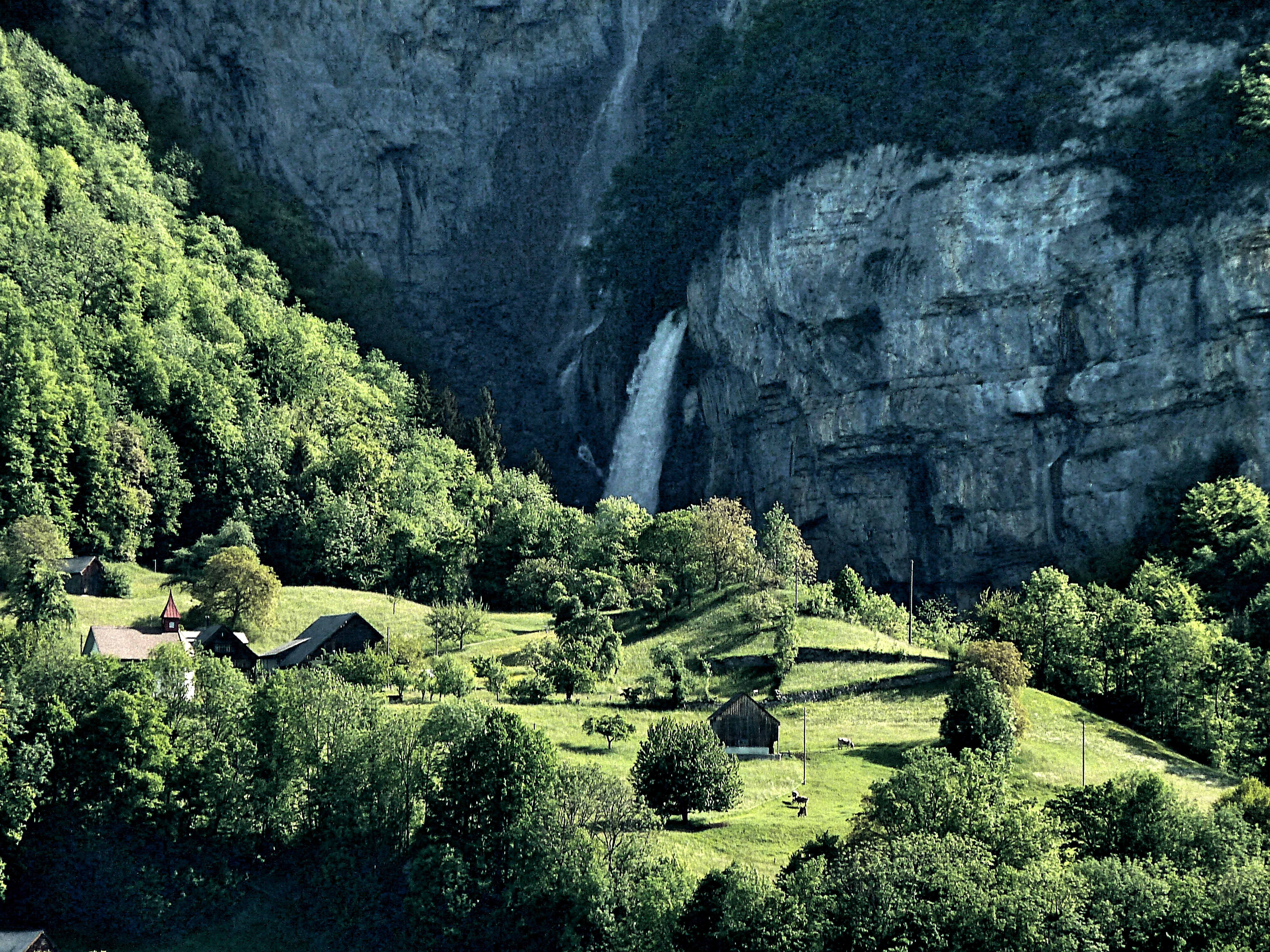 Rinquelle, karst spring near Amden, Canton St. Gallen, Switzerland